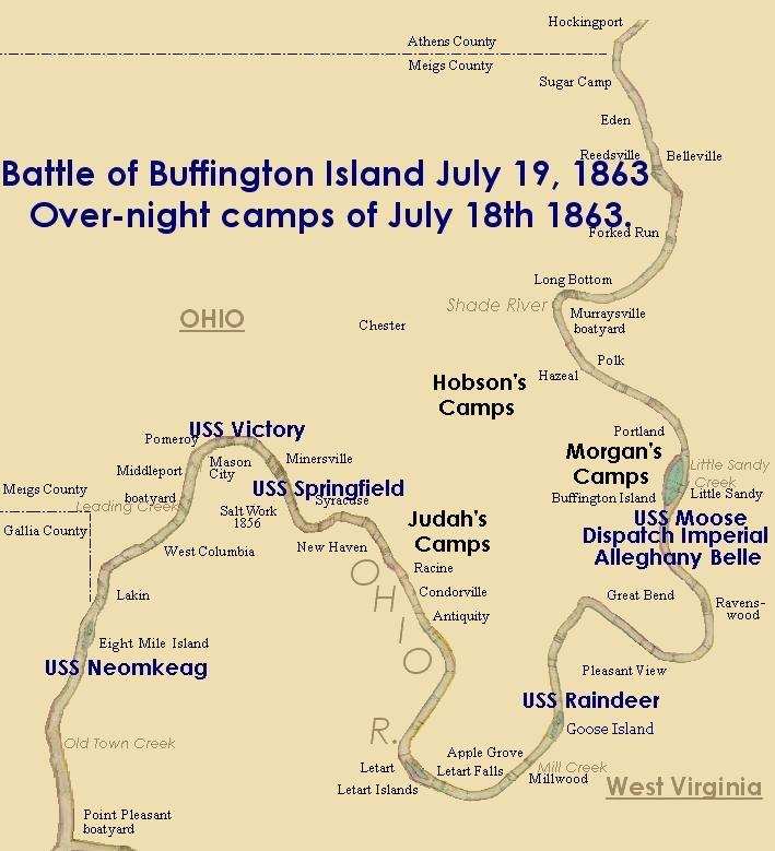 Battle of Buffington Island position map night before battle